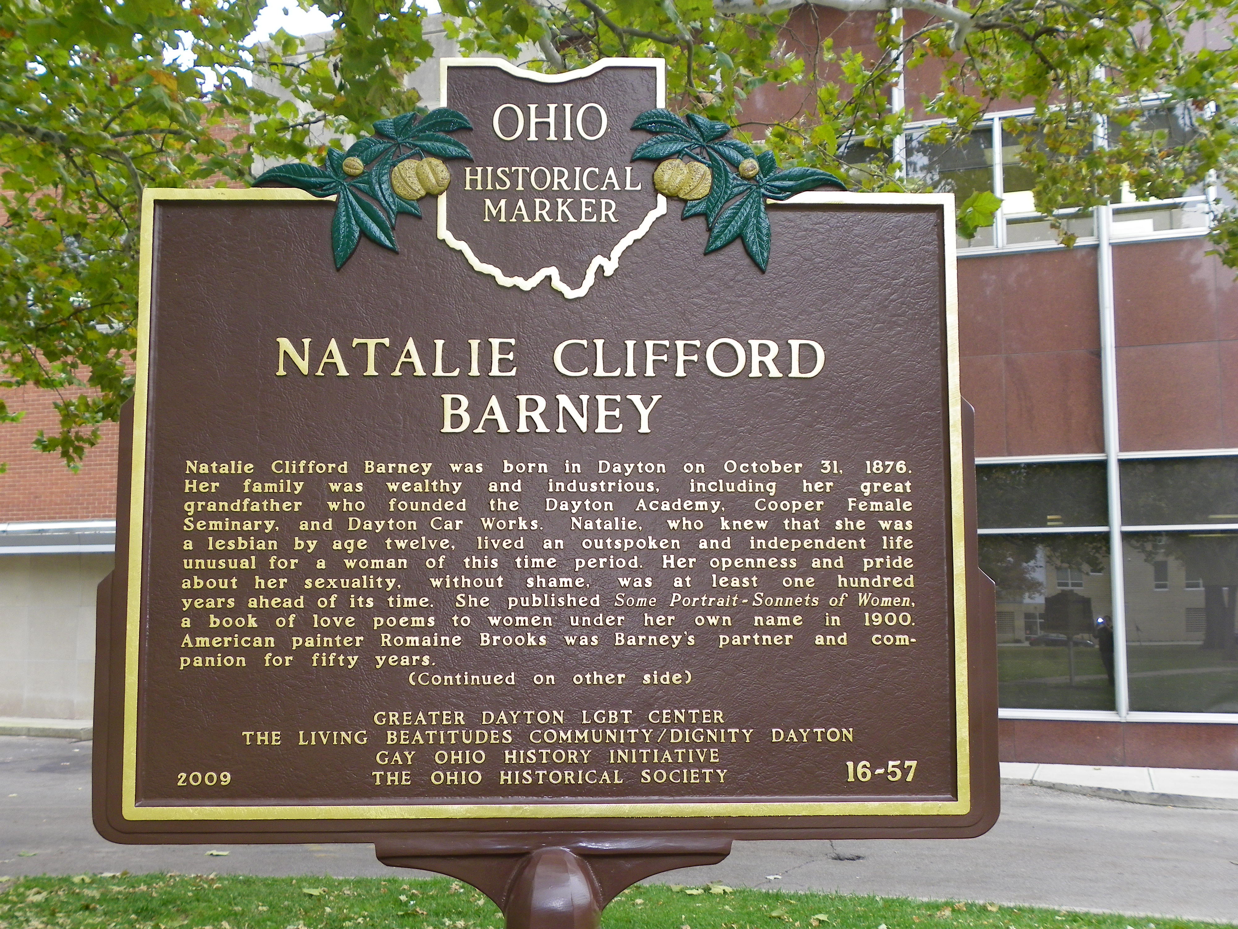 the Barney historical marker in Cooper Park, downtown Dayton. Later vandalized in July 2010.Historic Marker Vandalized In Cooper Park - News Story - WHIO Dayton